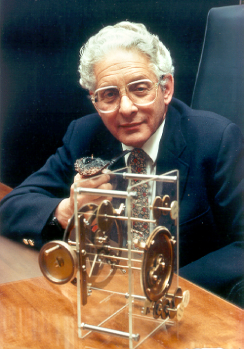 Derek deSolla Price (1922-1983) (family photo, contributed by his son)